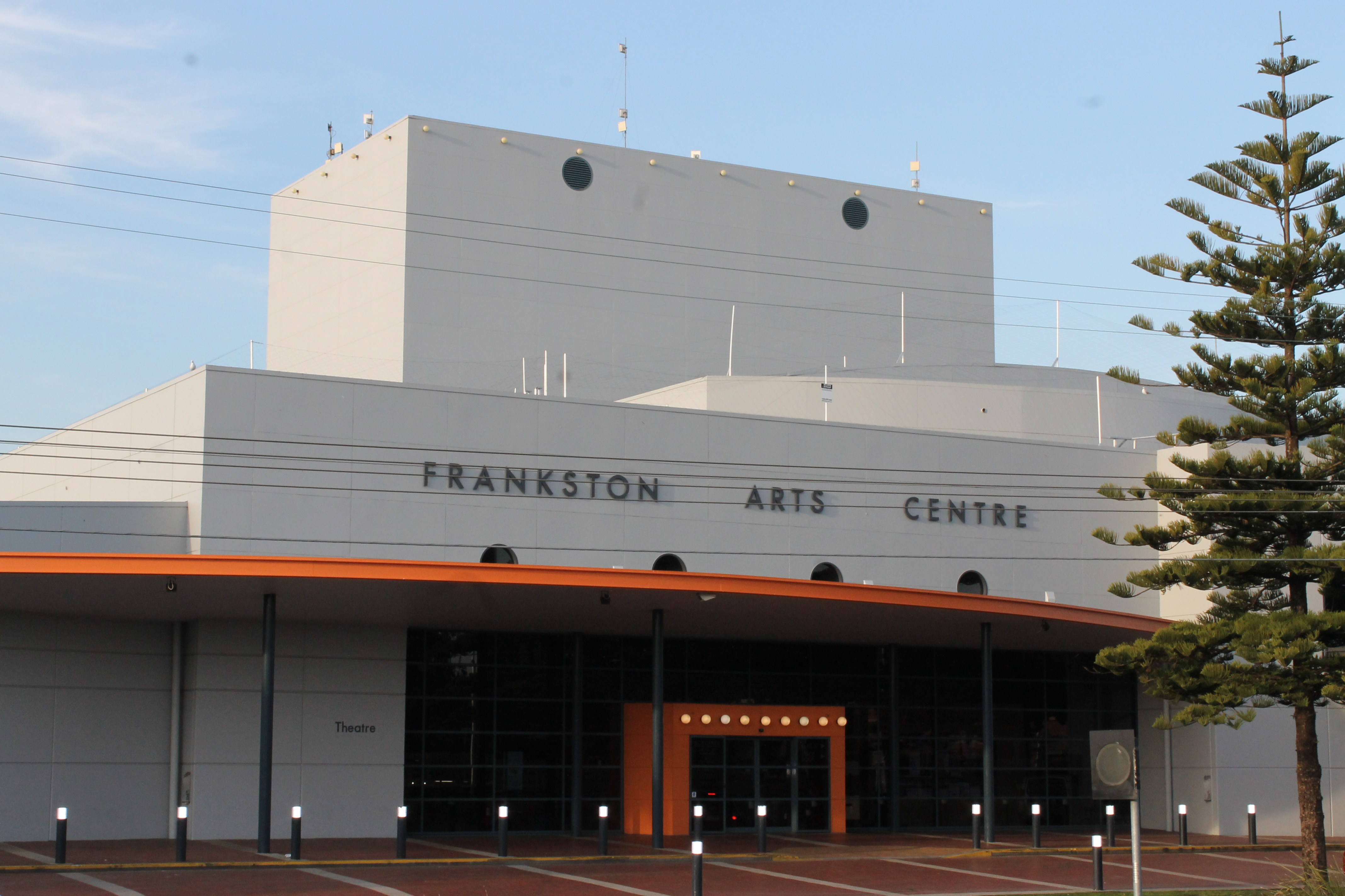 Frankston Arts Centre in Frankston, Victoria, Australia.